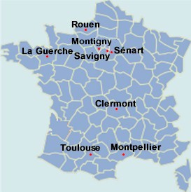 Map of the baseball french élite division 2009.